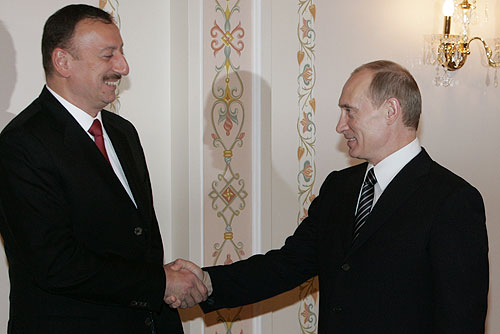 NOVO-OGARYOVO. With President of Azerbaijan Ilham Aliev.